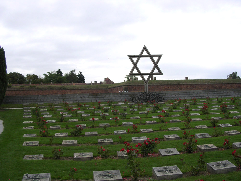 Jewish cemetery at Terezin, Czech Republic.